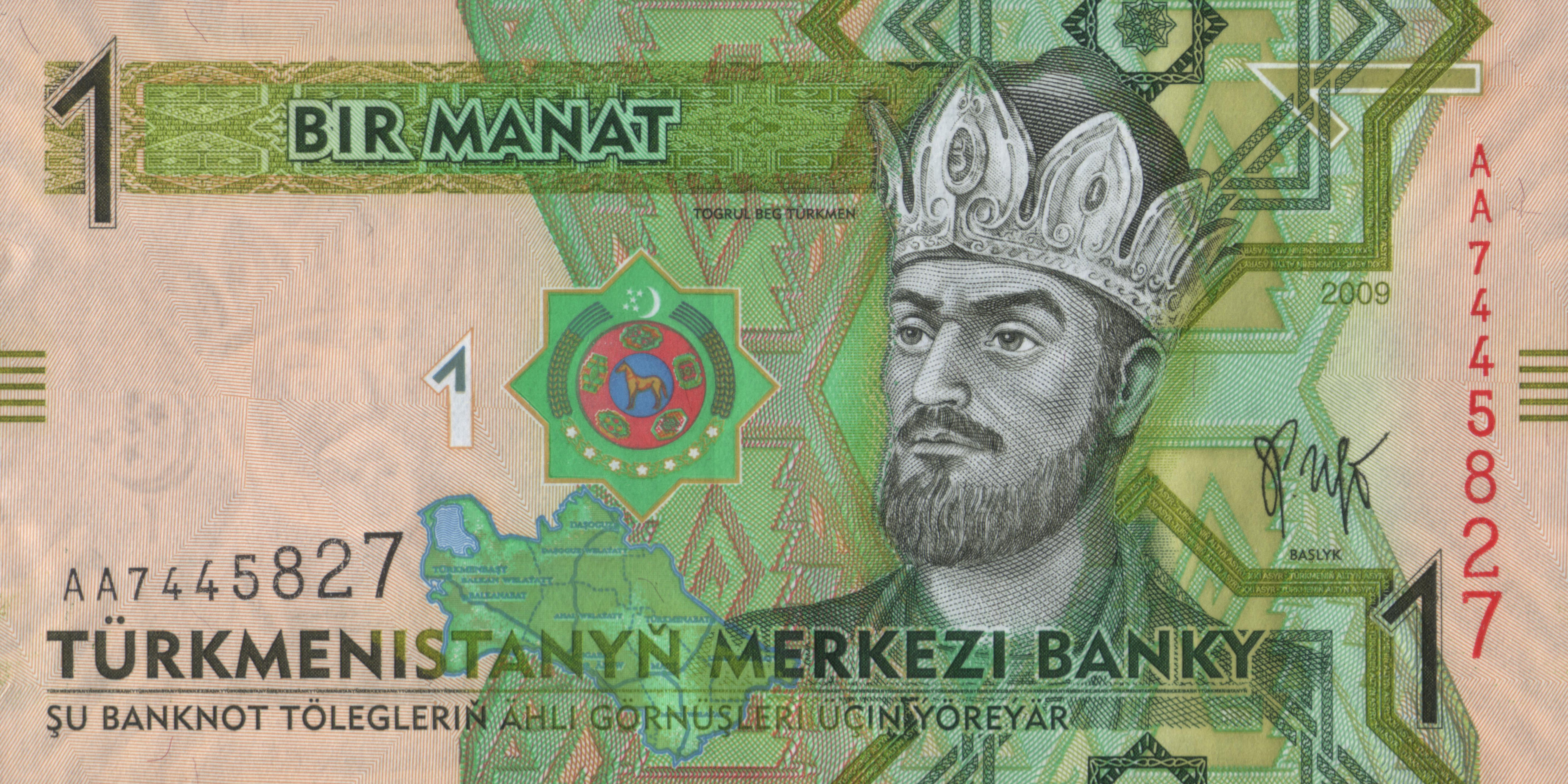 1 manat of Turkmenistan (2009)